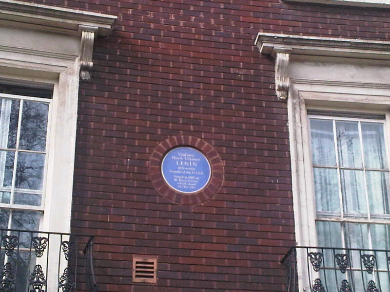 La targa in onore di Lenin in Percy Circus a Londra